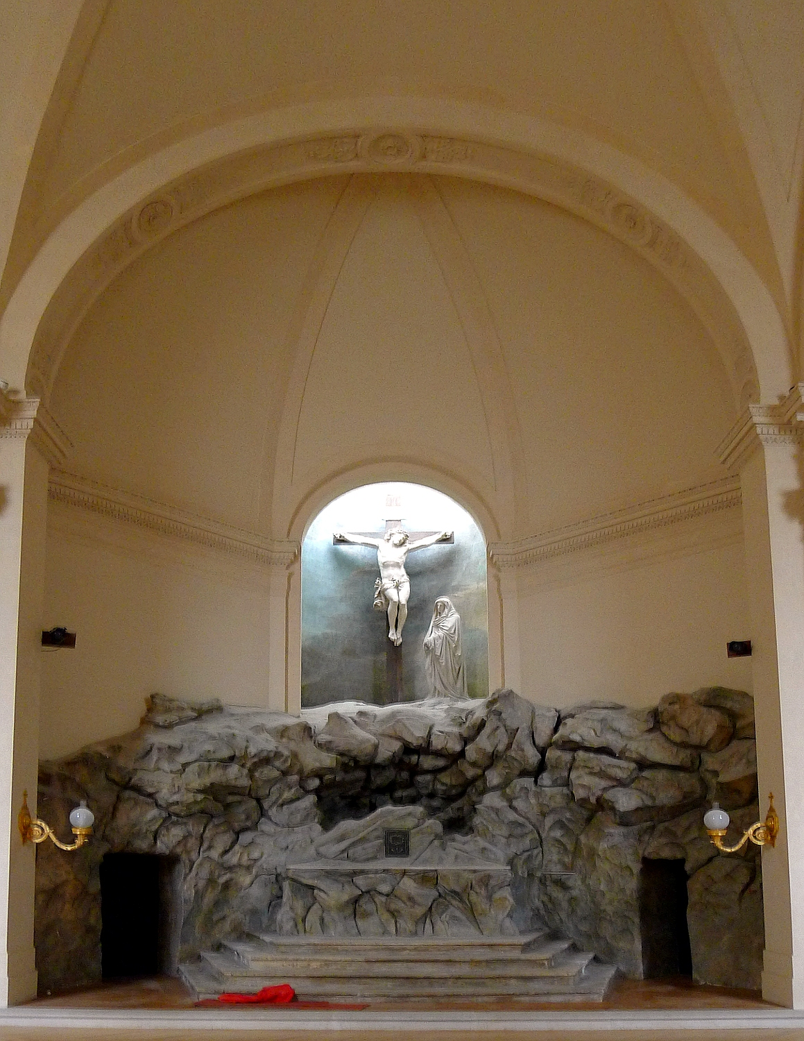 Saint-Roch church